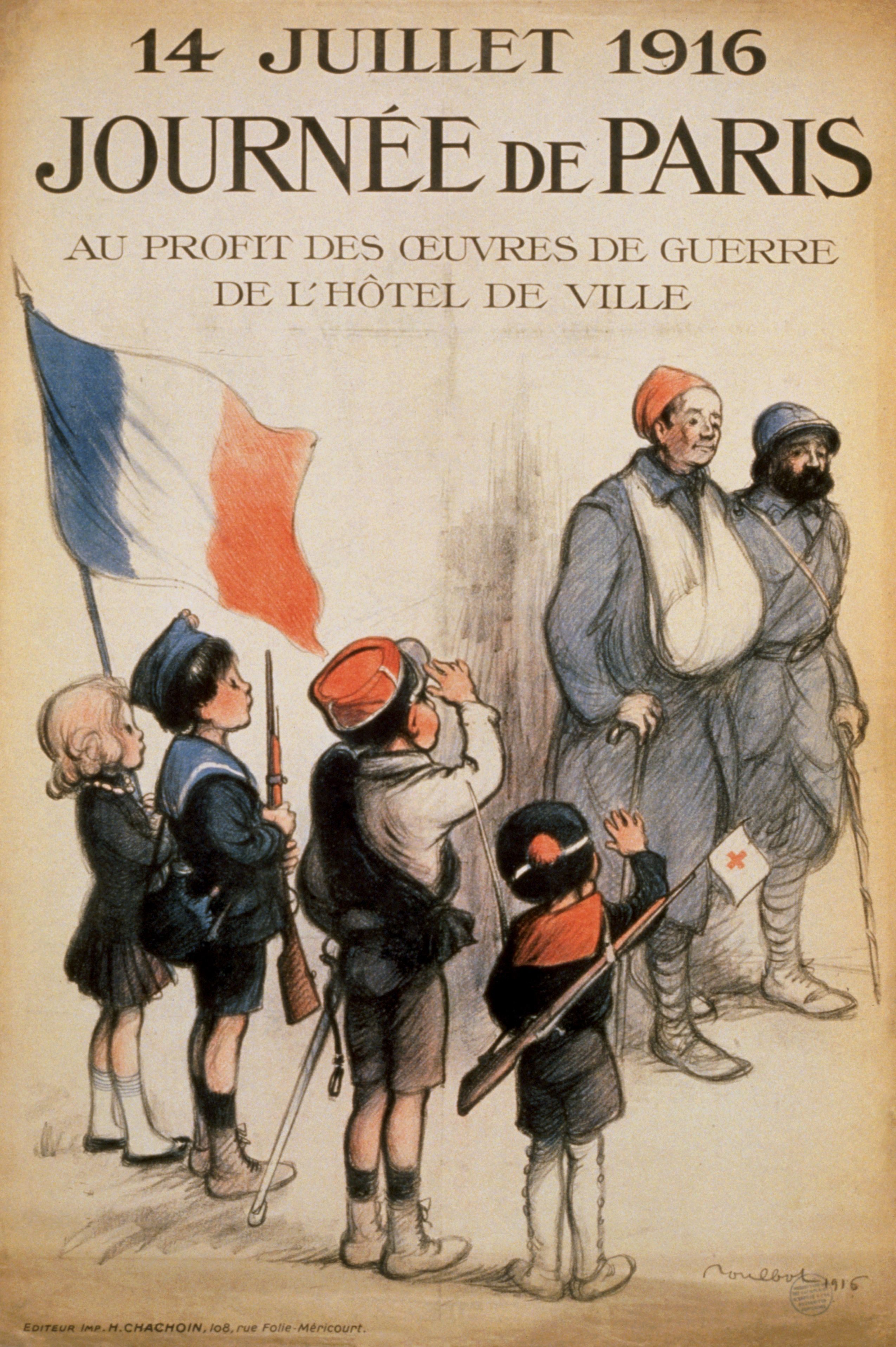 Small children dressed in soldiers' uniforms standing at attention while wounded soldiers walk by them.